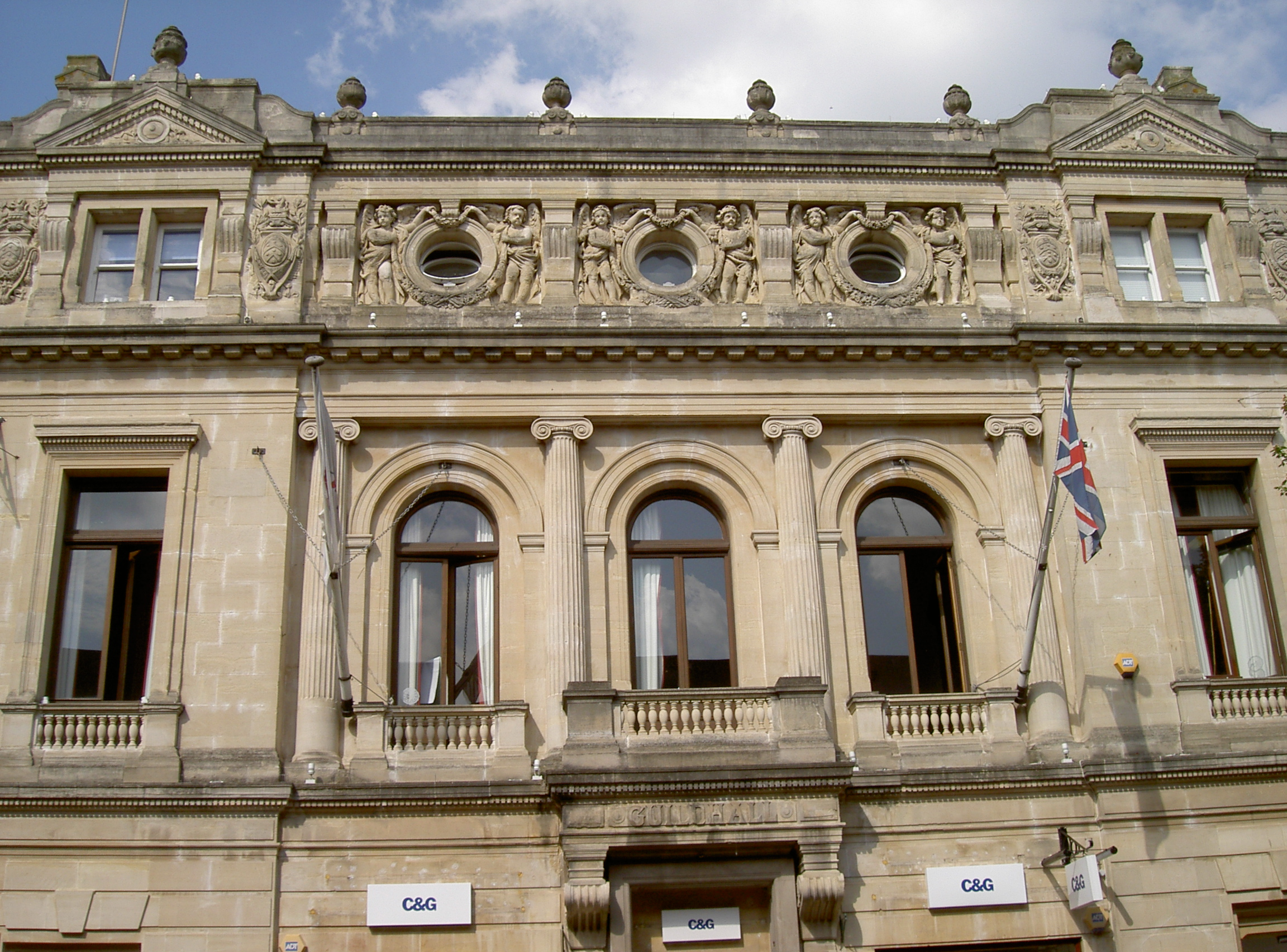 The Guildhall